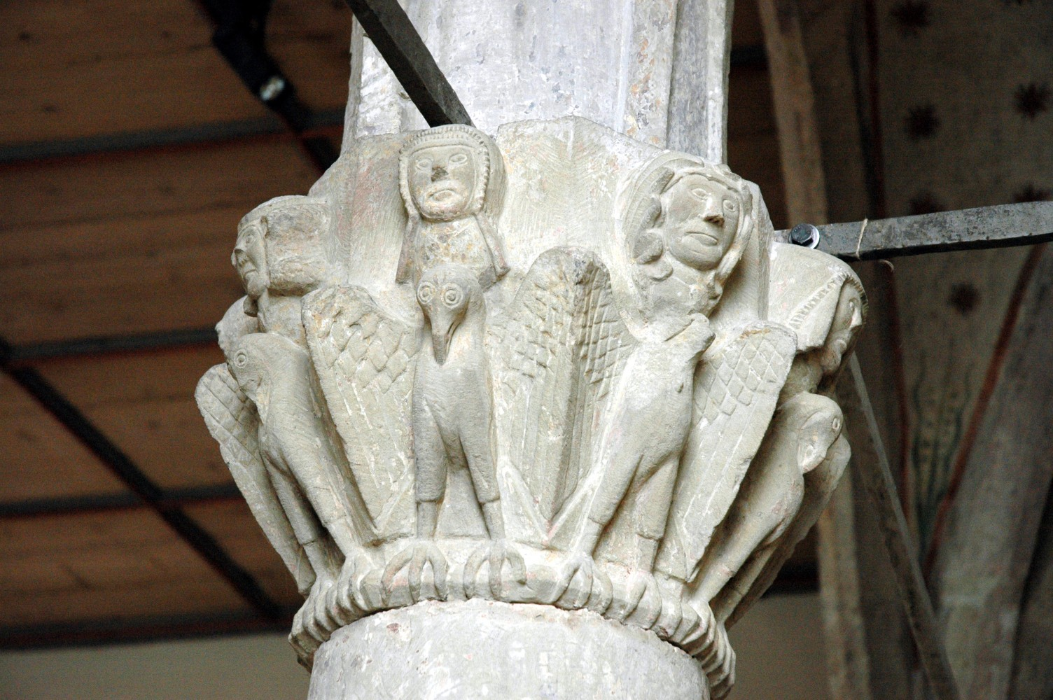 Capital in the church of Saint Michael at the Michaelsberg near Cleebronn.